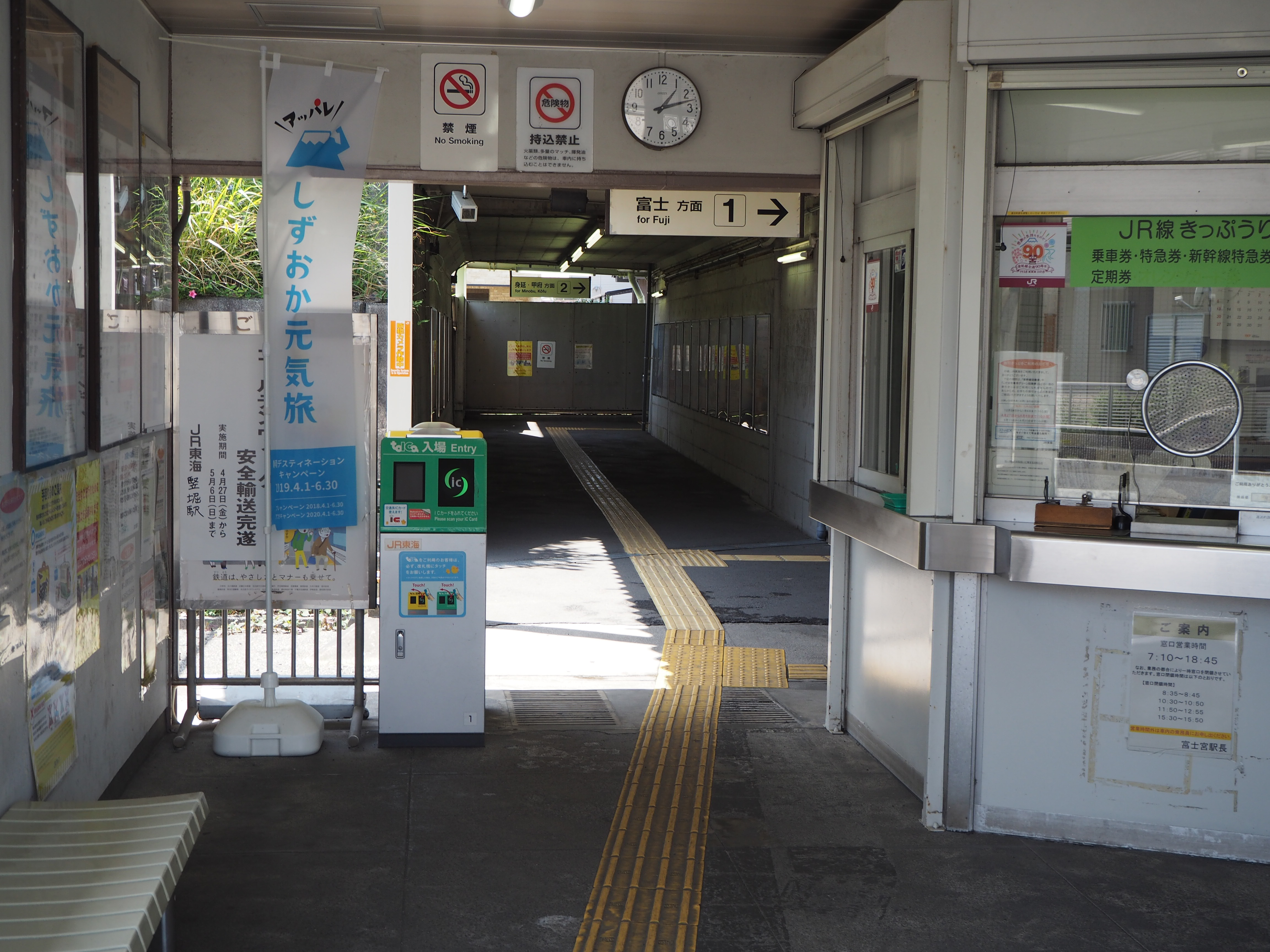 Ticket barriers of Tatebori Station